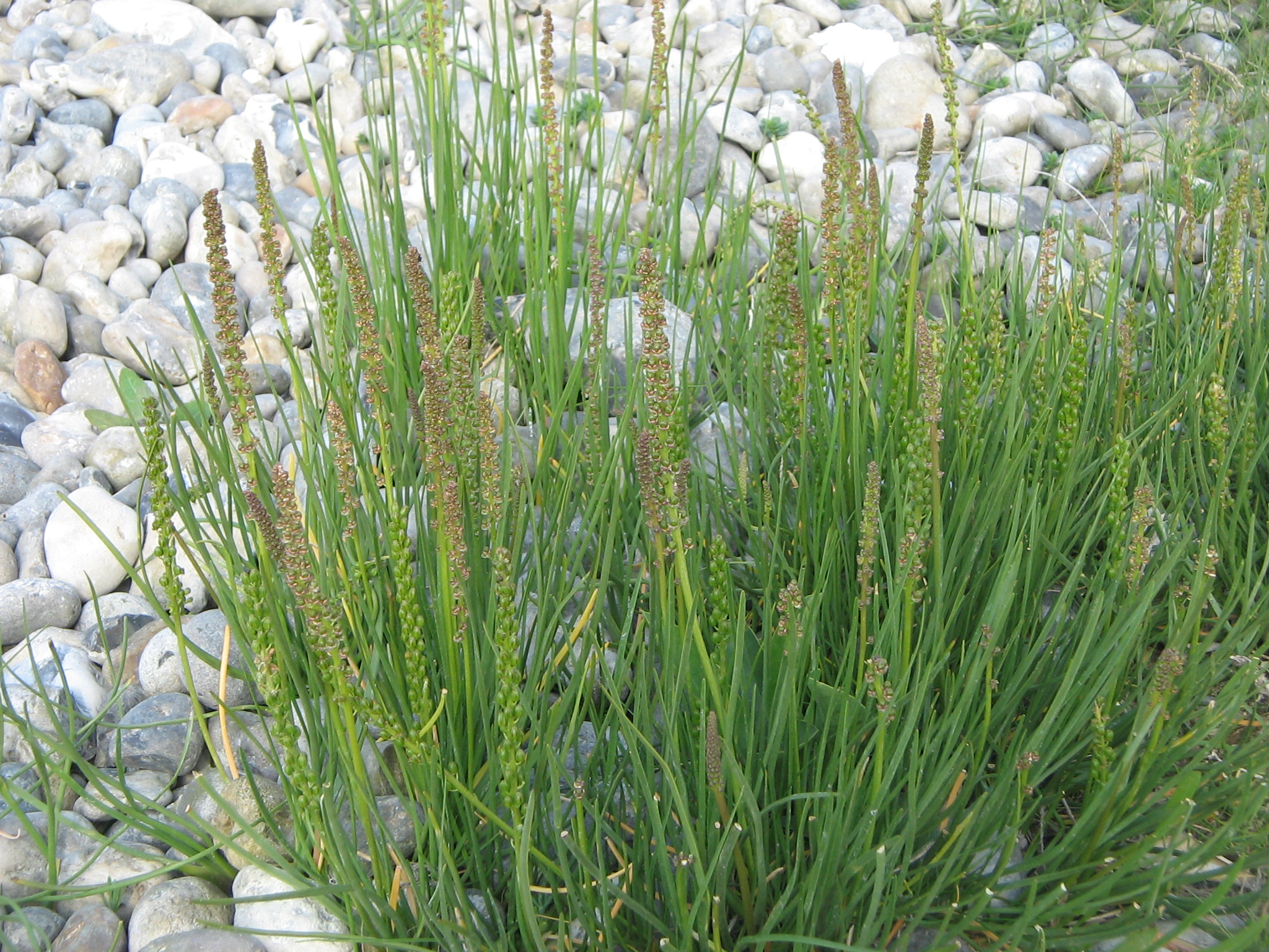 Triglochin maritimum